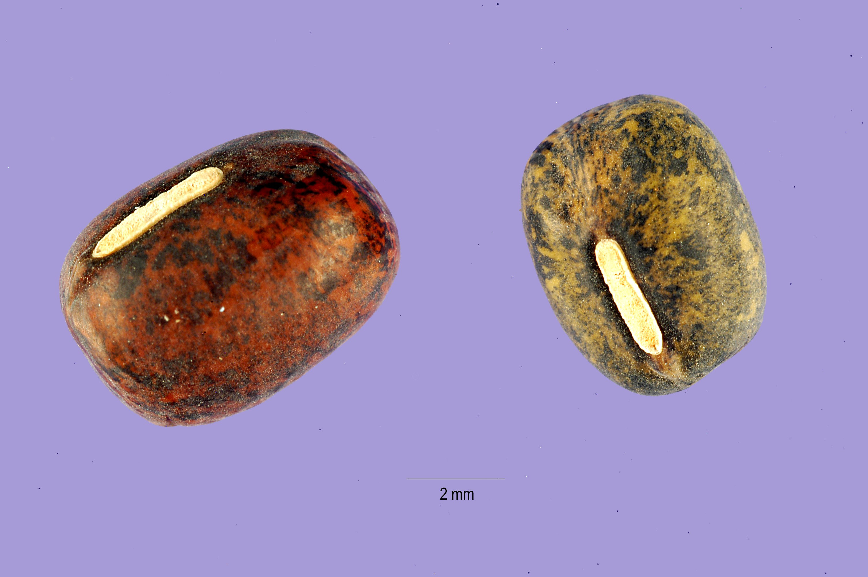 Vigna angularis (Willd.) Ohwi & Ohashi adzuki bean - VIAN7